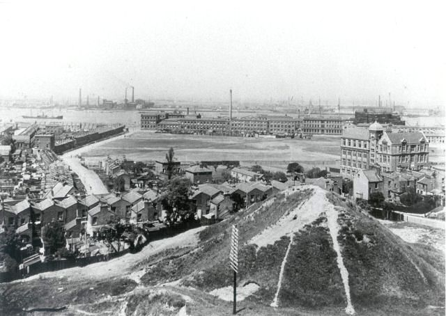 View from Maryon Park of New Charlton, SE London, UK. On the left: housing along Eastmoor Street, all since demolished. To the right, along Woolwich Road: Maryon Park School, built in 1894-96, later Holborn College, now Windrush Primary School. In the centre Siemens Meadow, one of Charlton's earlier football grounds. Beyond: early factory buildings of Siemens Brothers Telegraph Works, some of which are still standing on the north side of Bowater Road.